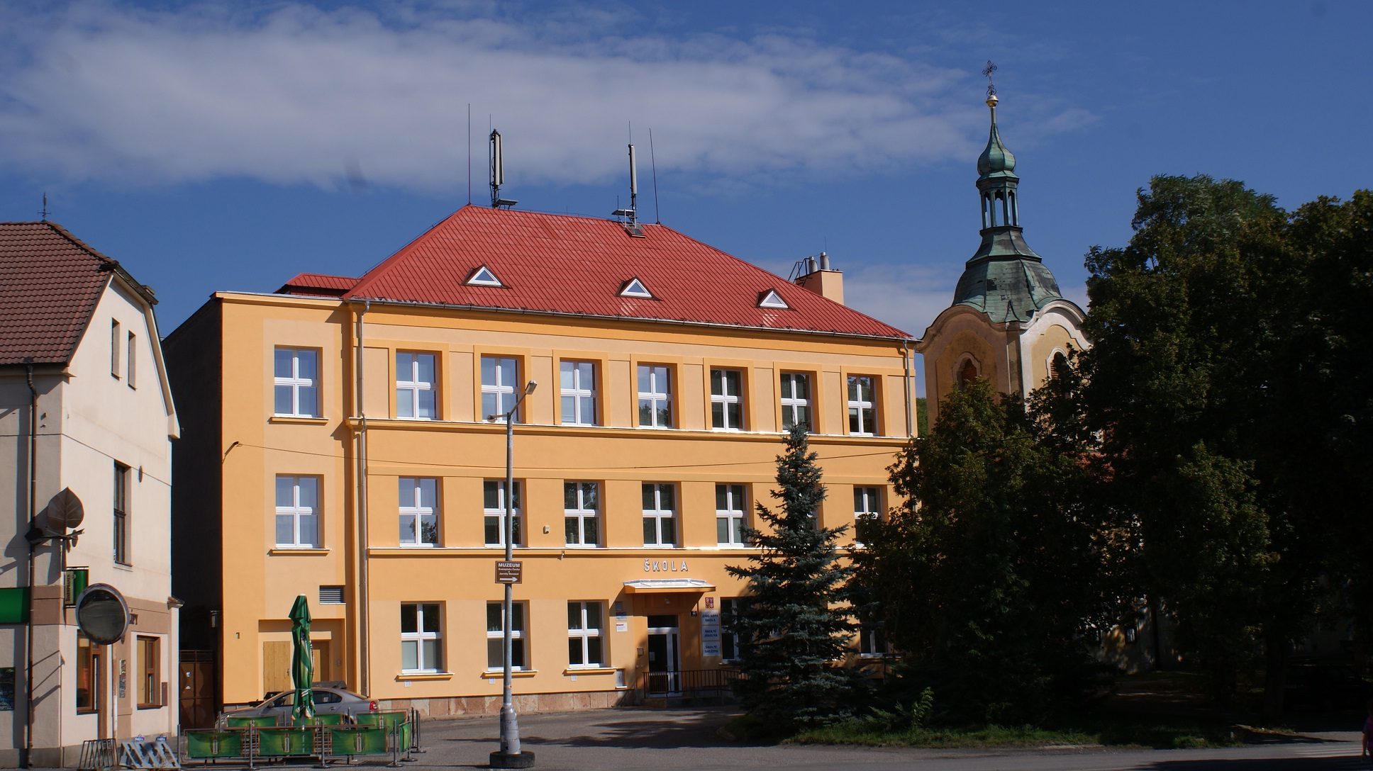 František Josef Řezáč Elementary school in Liten